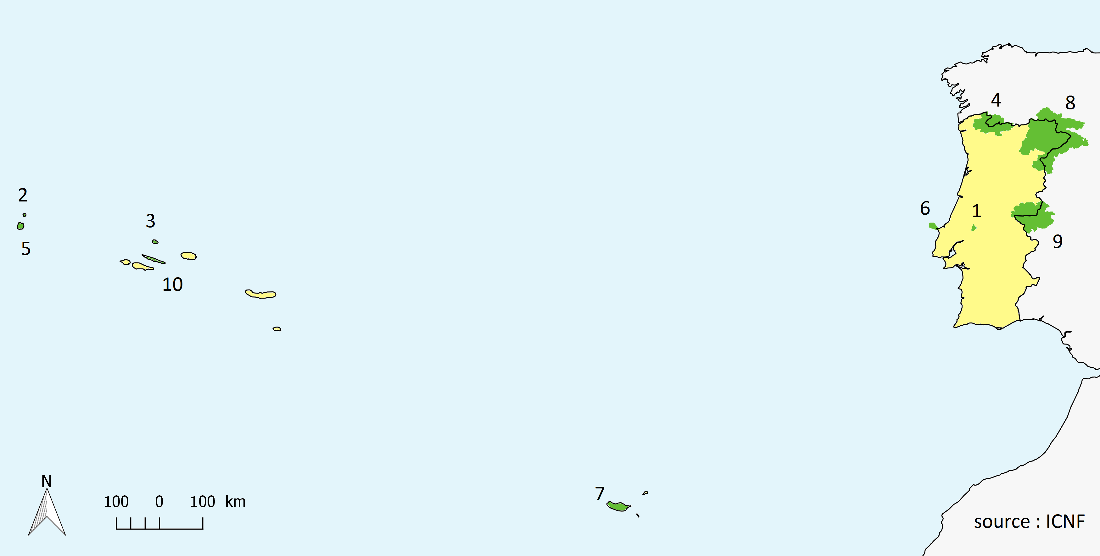 Map of the biosphere reserves of Portugal in 2016: 1.Paúl do Boquilobo (1981), 2.Corvo Island (2007), 3.Graciosa Island (2007), 4.Gerês - Xurés Transboundary BR (Portugal/Spain) (2009), 5.Flores Island (2009), 6.Berlengas (2011), 7.Santana Madeira (2011), 8.Meseta Ibérica Transboundary BR (Portugal/Spain) (2015), 9.Tejo/Tajo Internacional Transboundary BR (Portugal/Spain) (2016), 10.Fajãs de São Jorge (2016)